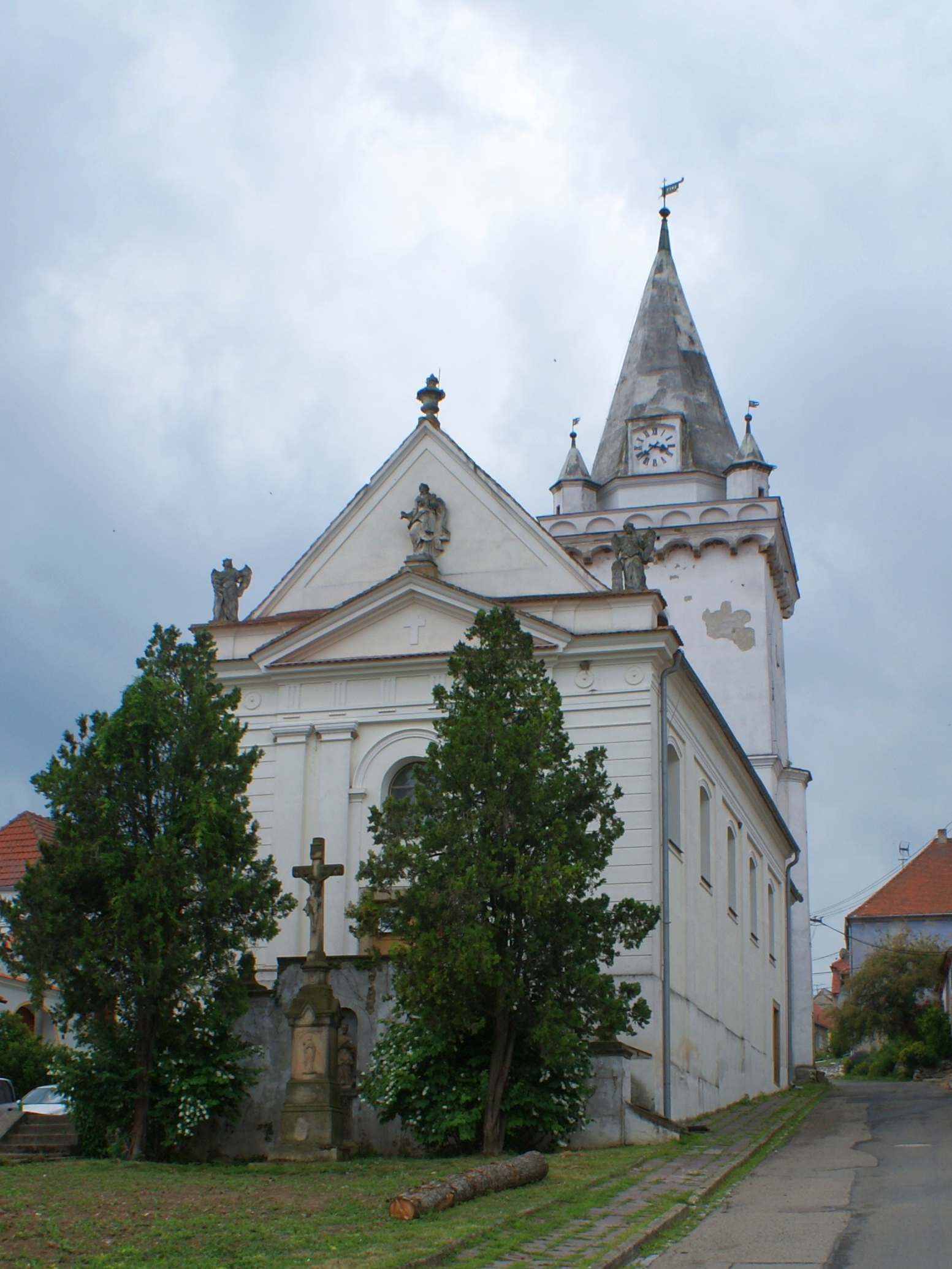 Pavlov, a village in Břeclav District, Czech Republic, church of St Barbara.